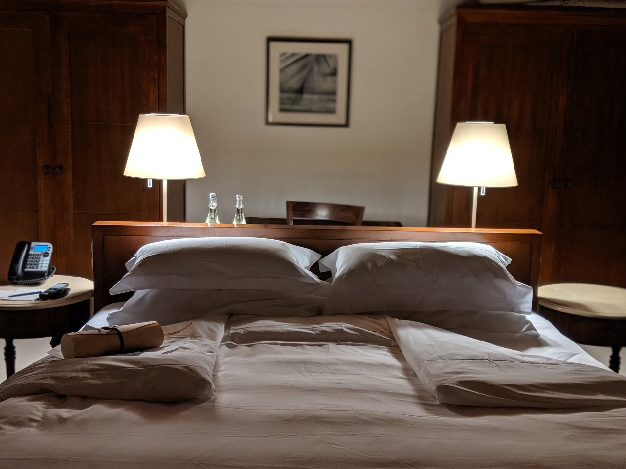 The Residence MALDIVES room